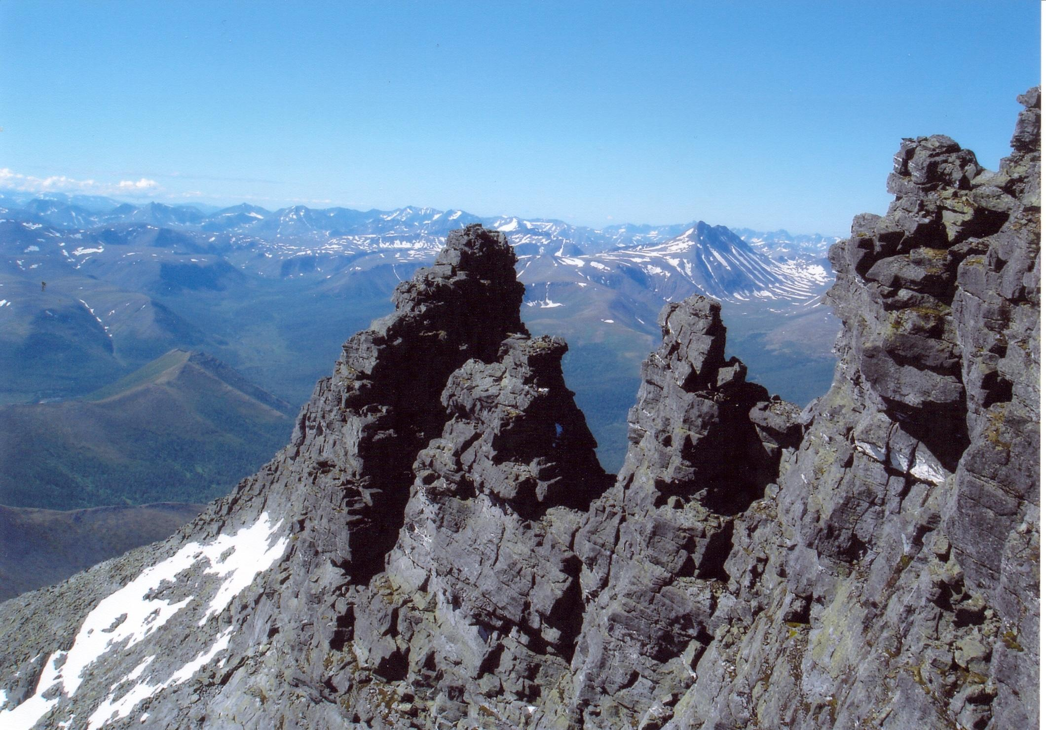 Mountain formation and landscape near the village Saranpaul, Khanty-Mansi Autonomous Okrug (Russia).